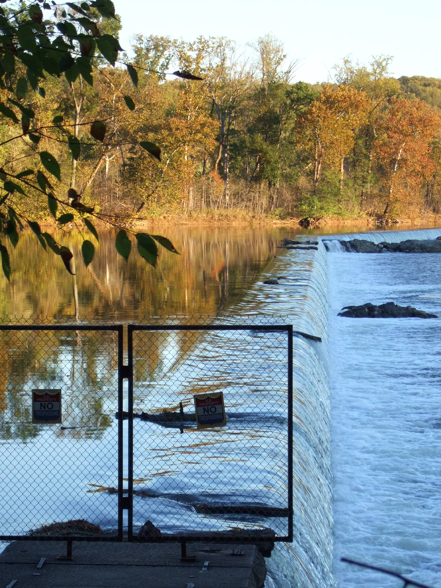 Standing on the Virginia shoreline, looking southeast at the Washington Aqueduct gravity weir dam on the Great Falls of the Potomac River near Washington, D.C., in the United States. The dam began construction in 1864 as part of the Washington Aqueduct, which was designed to provide large amounts of drinkable water to the District of Columbia and city of Washington. It was completed in 1867. The dam originally extended from the Maryland shore to Conn's Island in the center of the river. In 1889, the extension of the dam from Conn's Island to the Virginia shoreline was completed. The dam is made of cut stone, and anchored to the riverbed. It is 1,176 feet (358 m) long. The U.S. Supreme Court has ruled that the Maryland border extends to the high-water mark on the Virginia shoreline, which means this dam (except for one abutment) is located in Maryland.